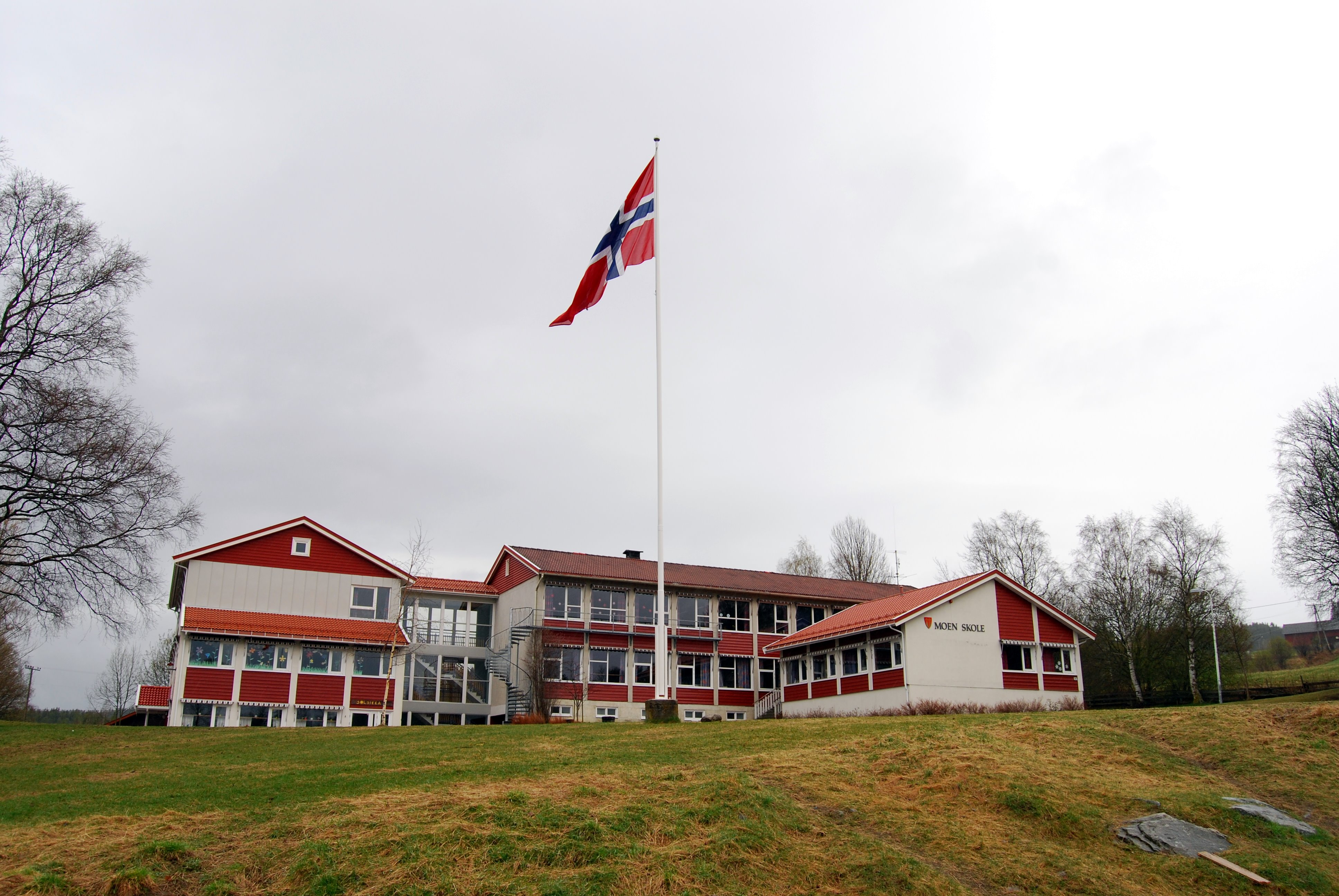 Moen school, Gran, Oppland, Norway.